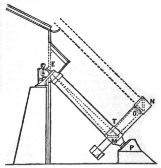 EB1911 Telescope - Fig. 22 Loewy's Coude Equatorial